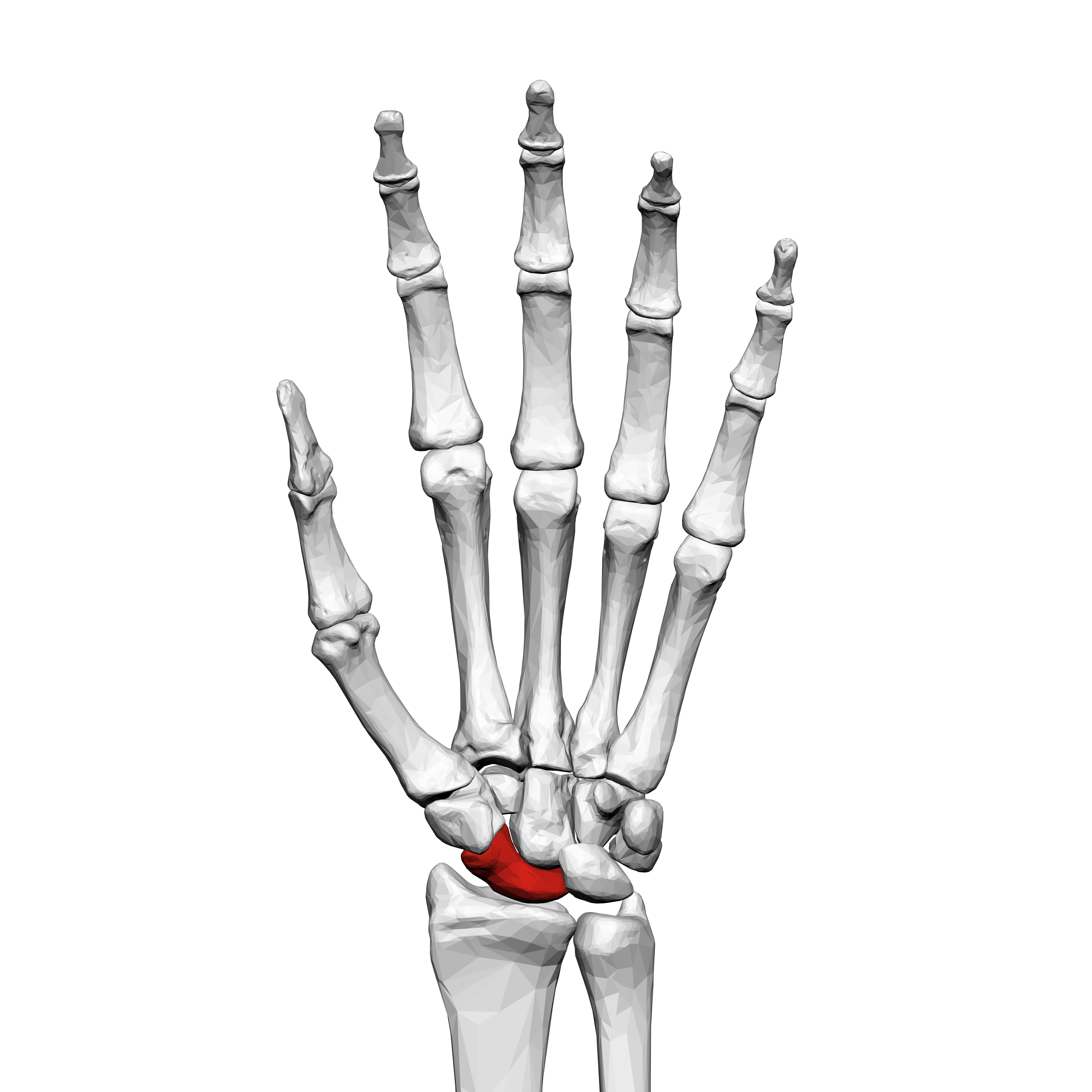 Scaphoid bone (shown in red).